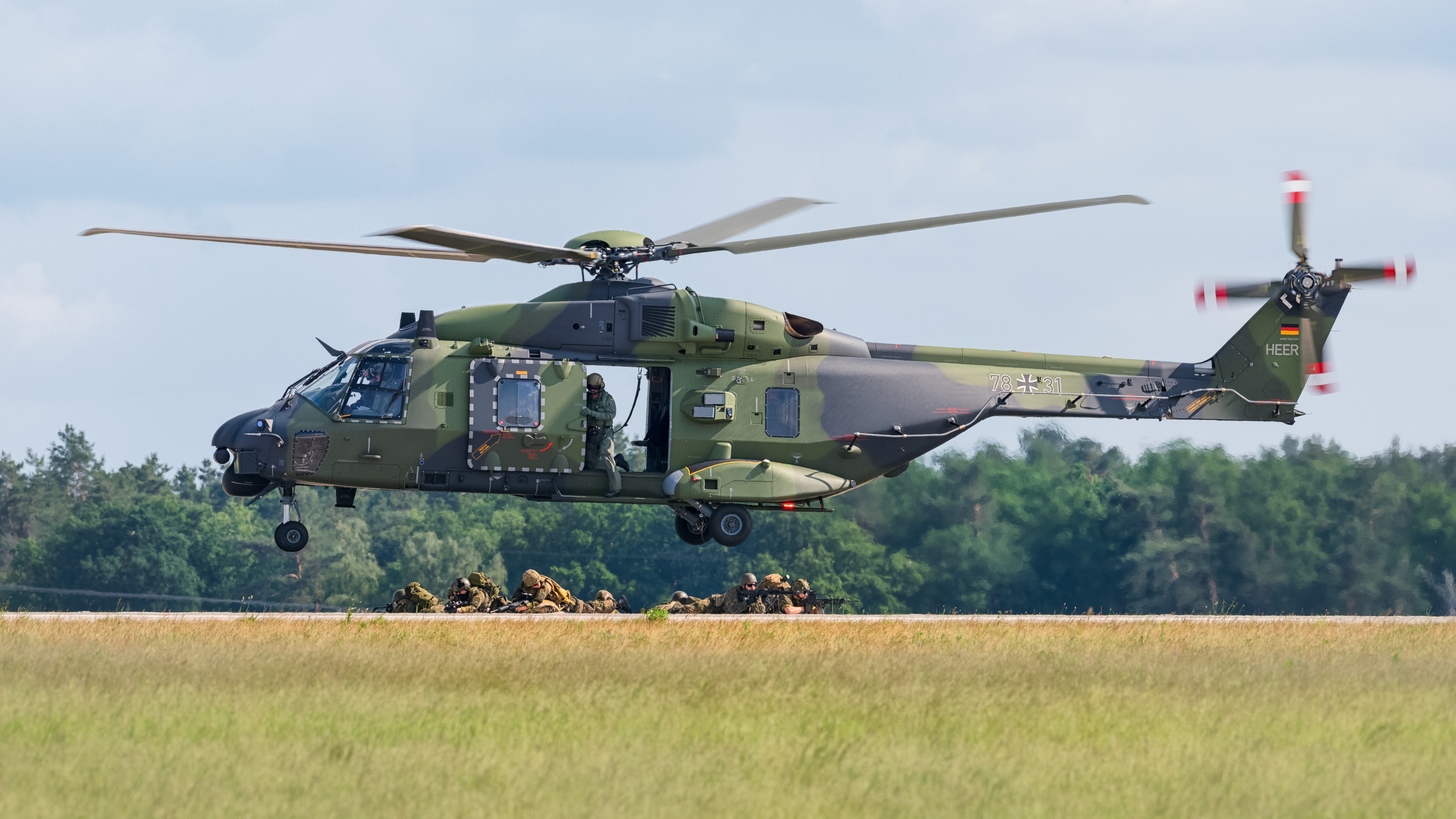 German Army (Heer) NHIndustries NH90 TTH (reg. 78+31, cn unknown) at ILA Berlin Air Show 2016.